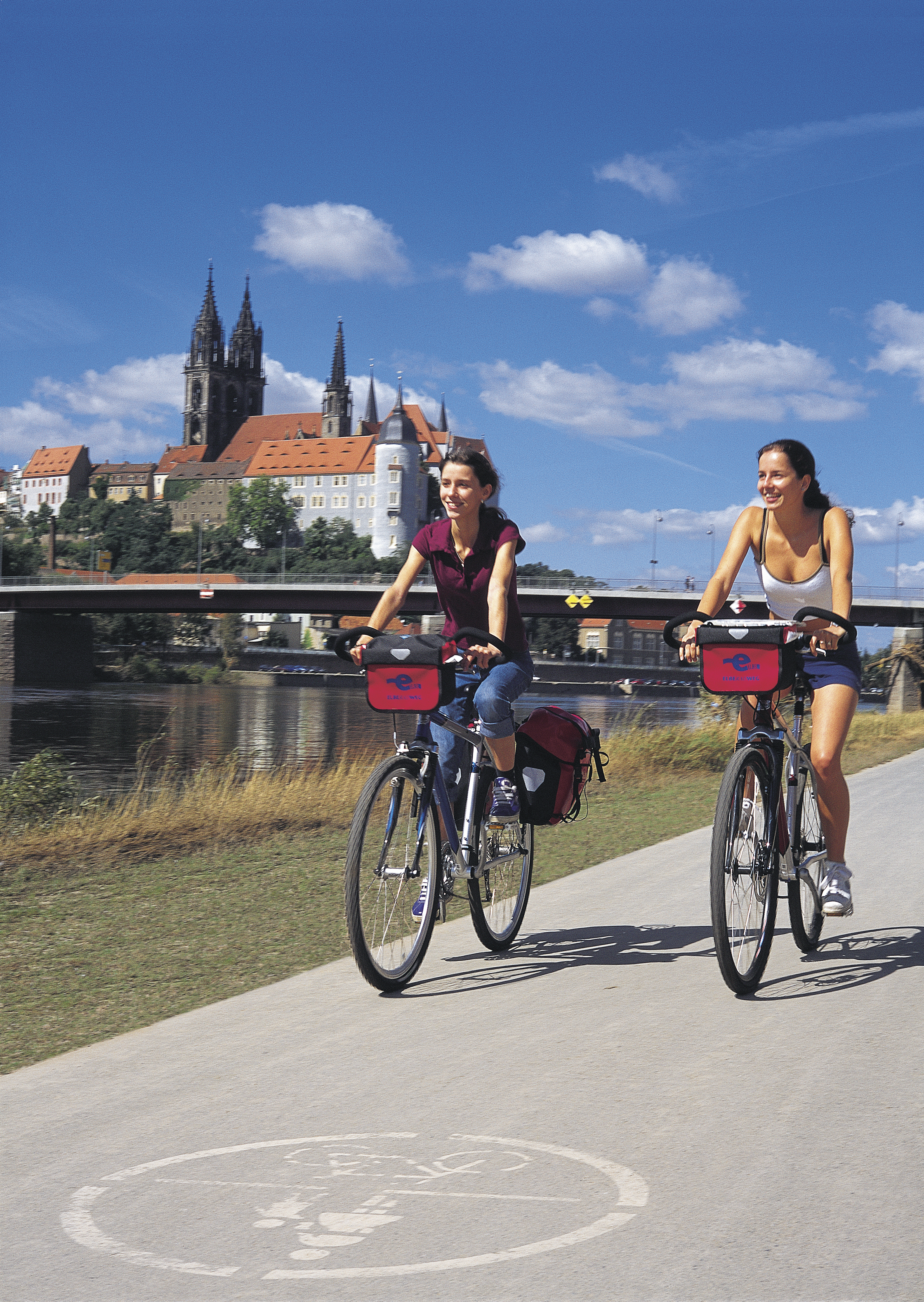 Tourists on their bicycles in the city of Meißen with castle Albrechtsburg in the background of the picture.